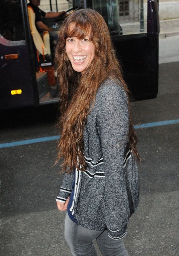 Alanis Morissette in Praha